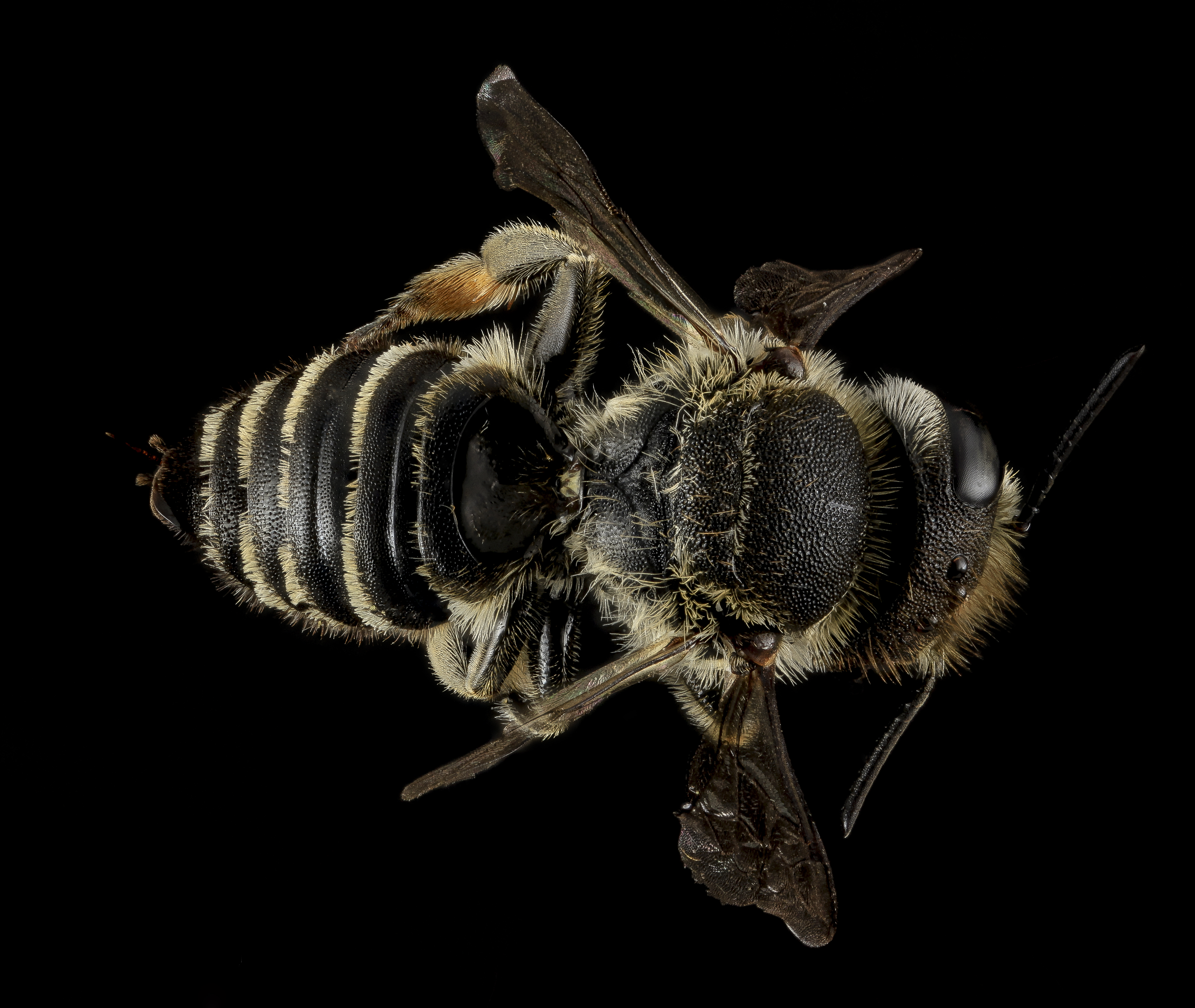 A purposefully introduced bee, used, at times, in the pollination of alfalfa and other crops, but now widely naturalized and can be found throughout North America, particularly in urban or disturbed areas. Collected by Tim McMahon in Cecil County Maryland and photographed by Brooke Alexander